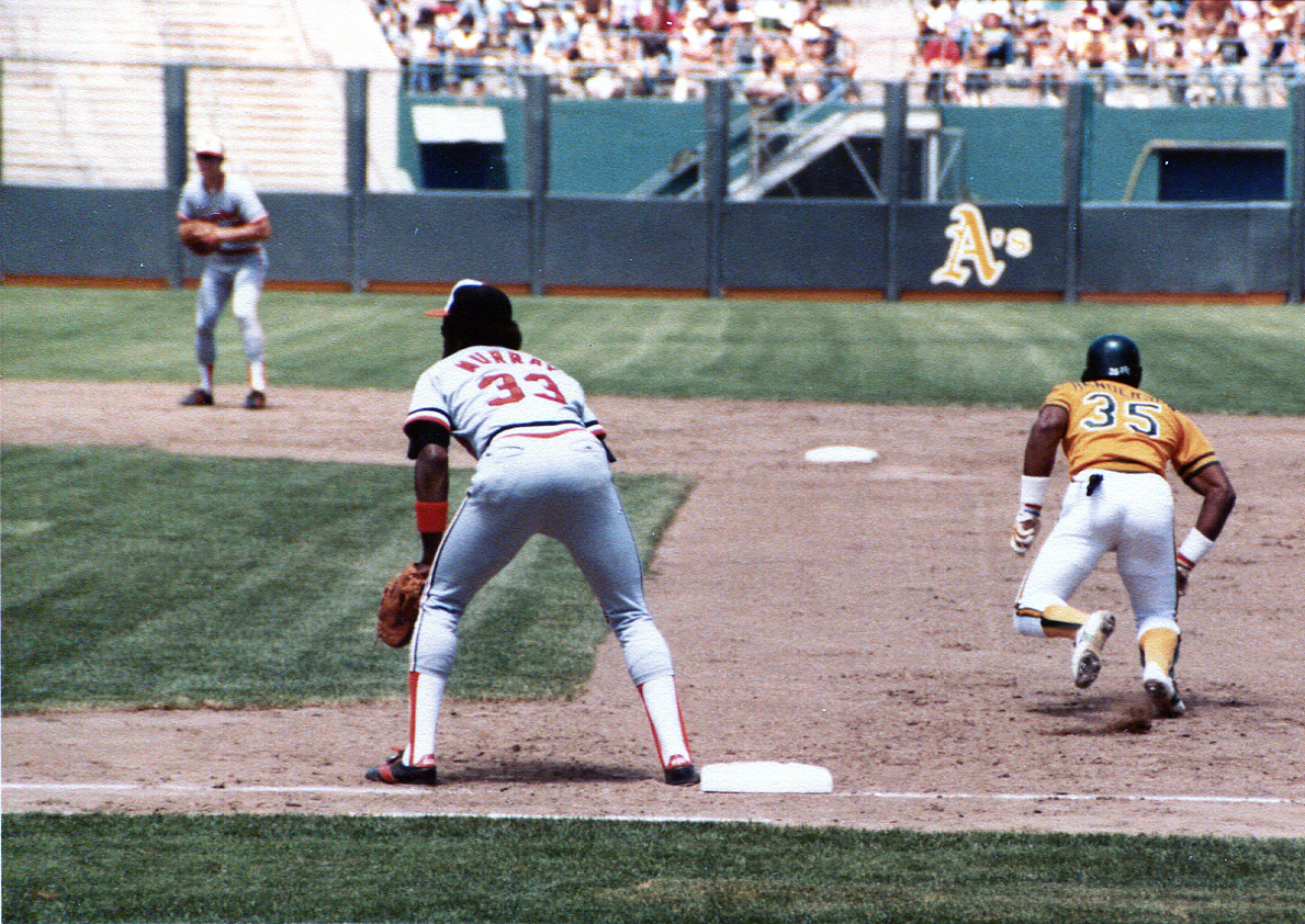 Rickey Henderson in yellow takes off to steal second base while Eddie Murray mans the bag at first. Cal Ripken, Jr. plays shortstop in the background. All three players are now in the Baseball Hall of Fame.